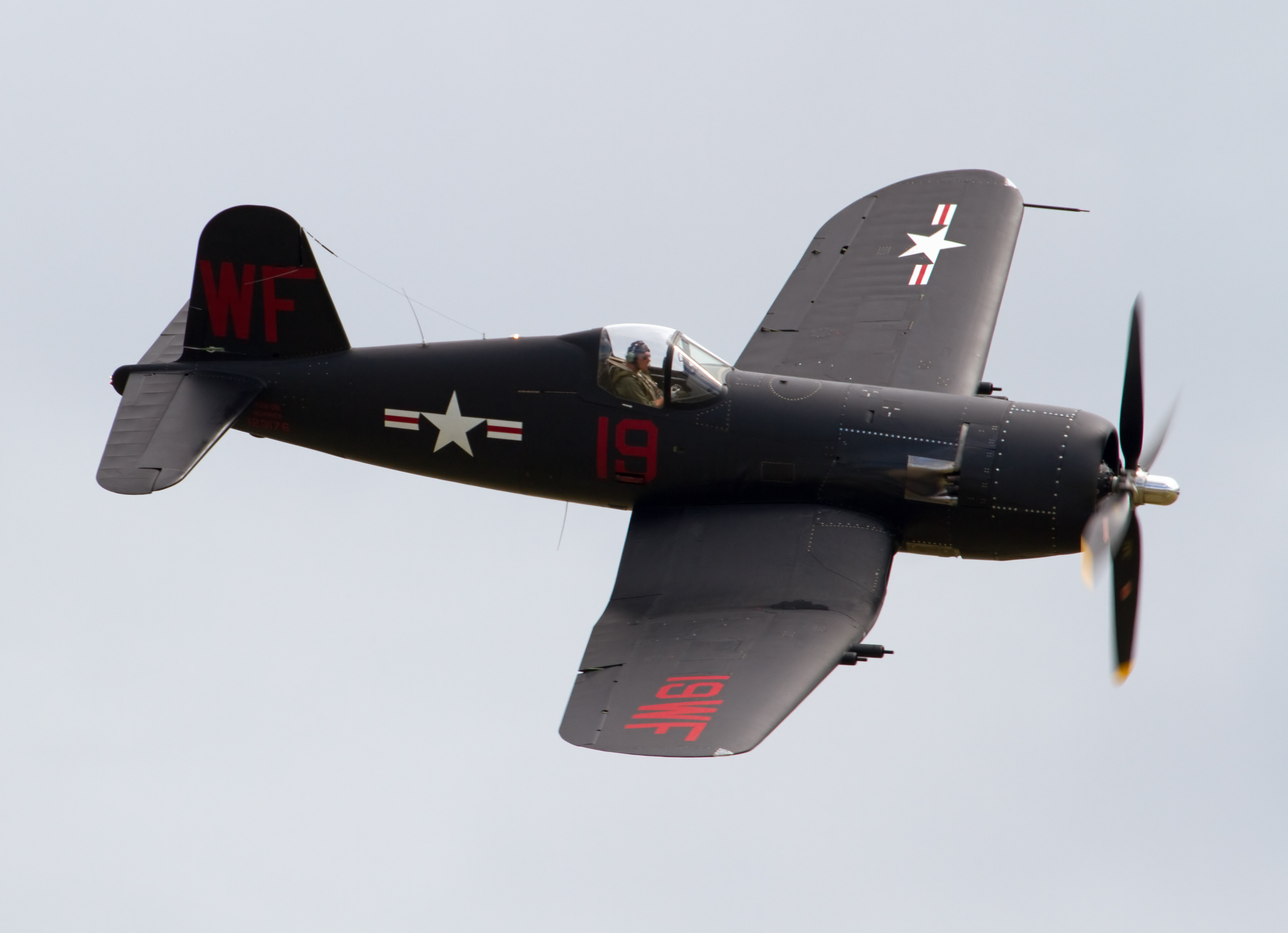 Vought Corsair F4U-7 BuNo 124541 1